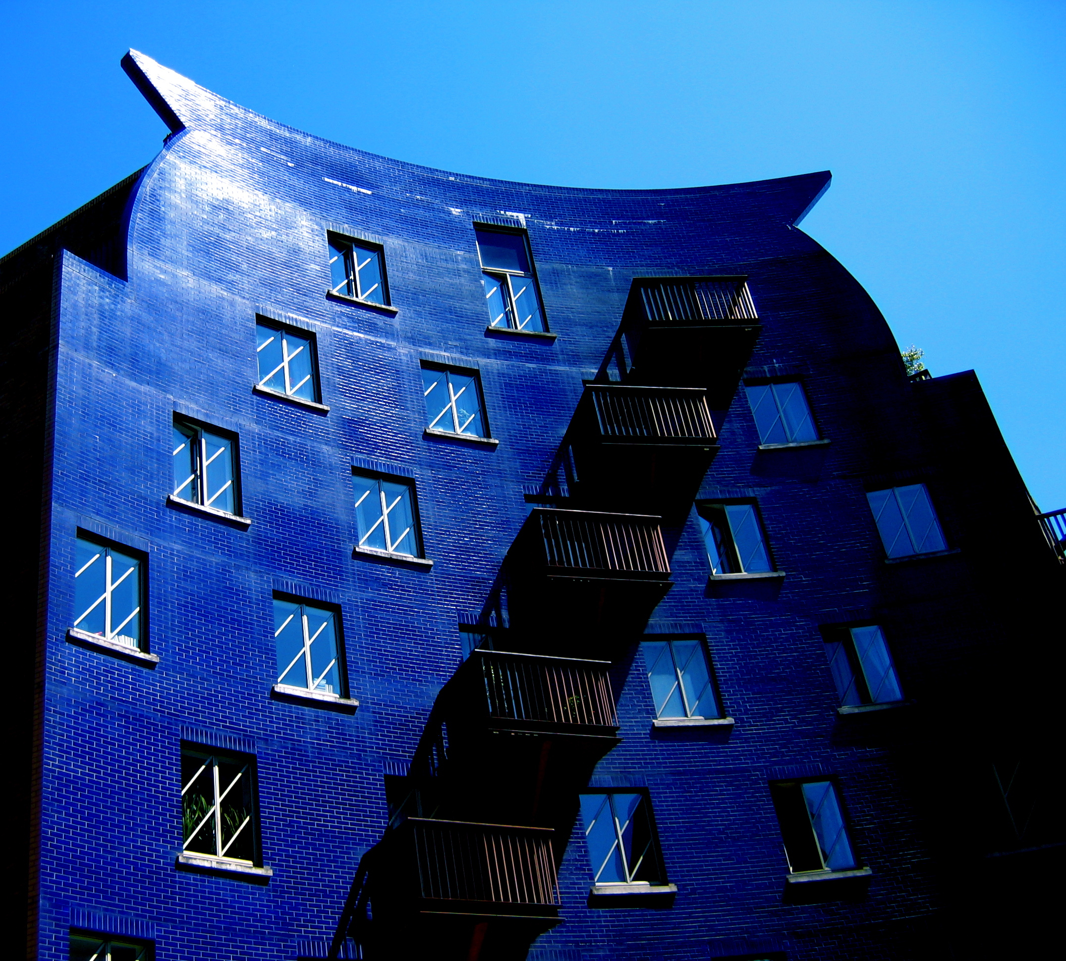 Shad Thames